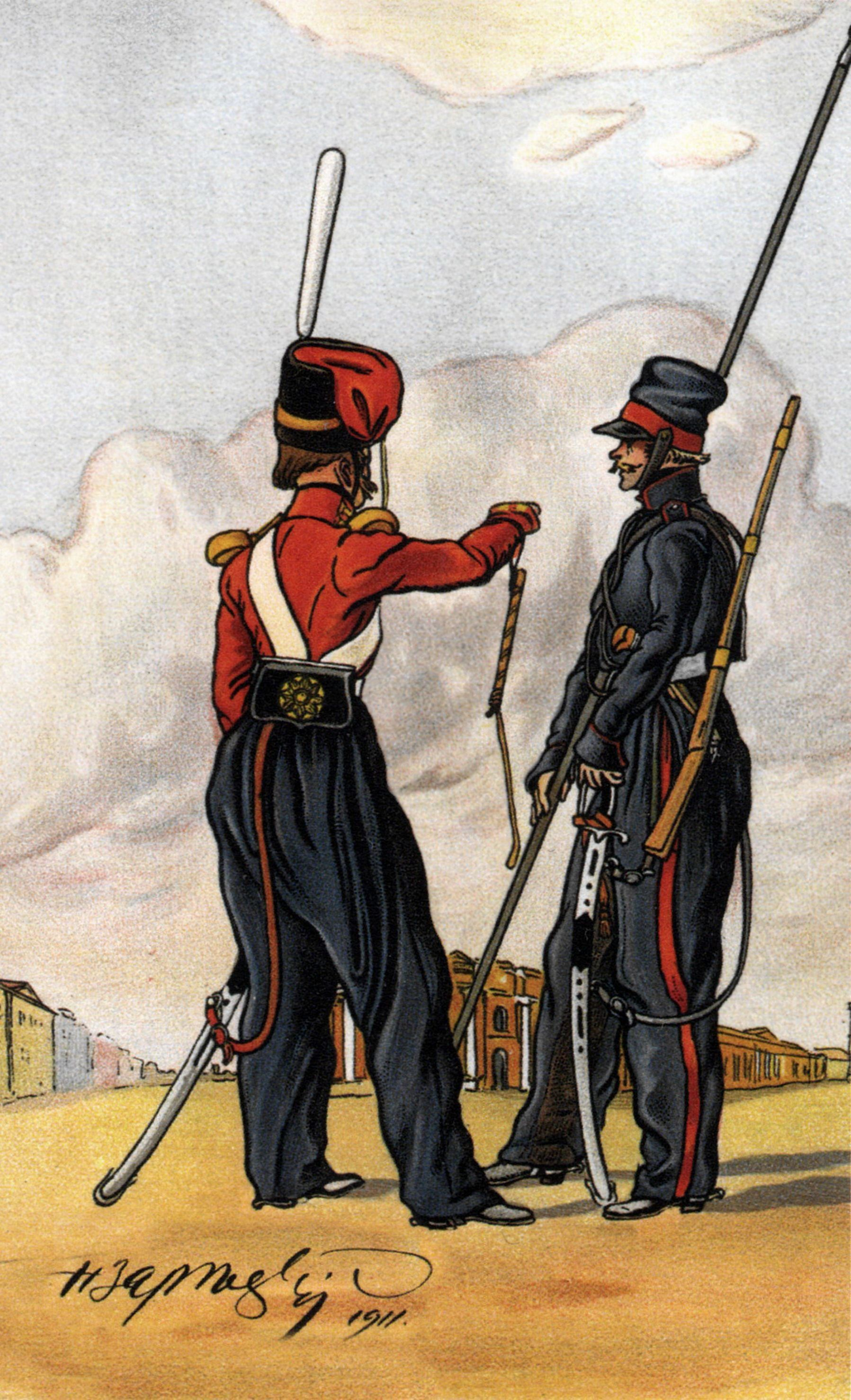 From the series The Russian Army in 1812.